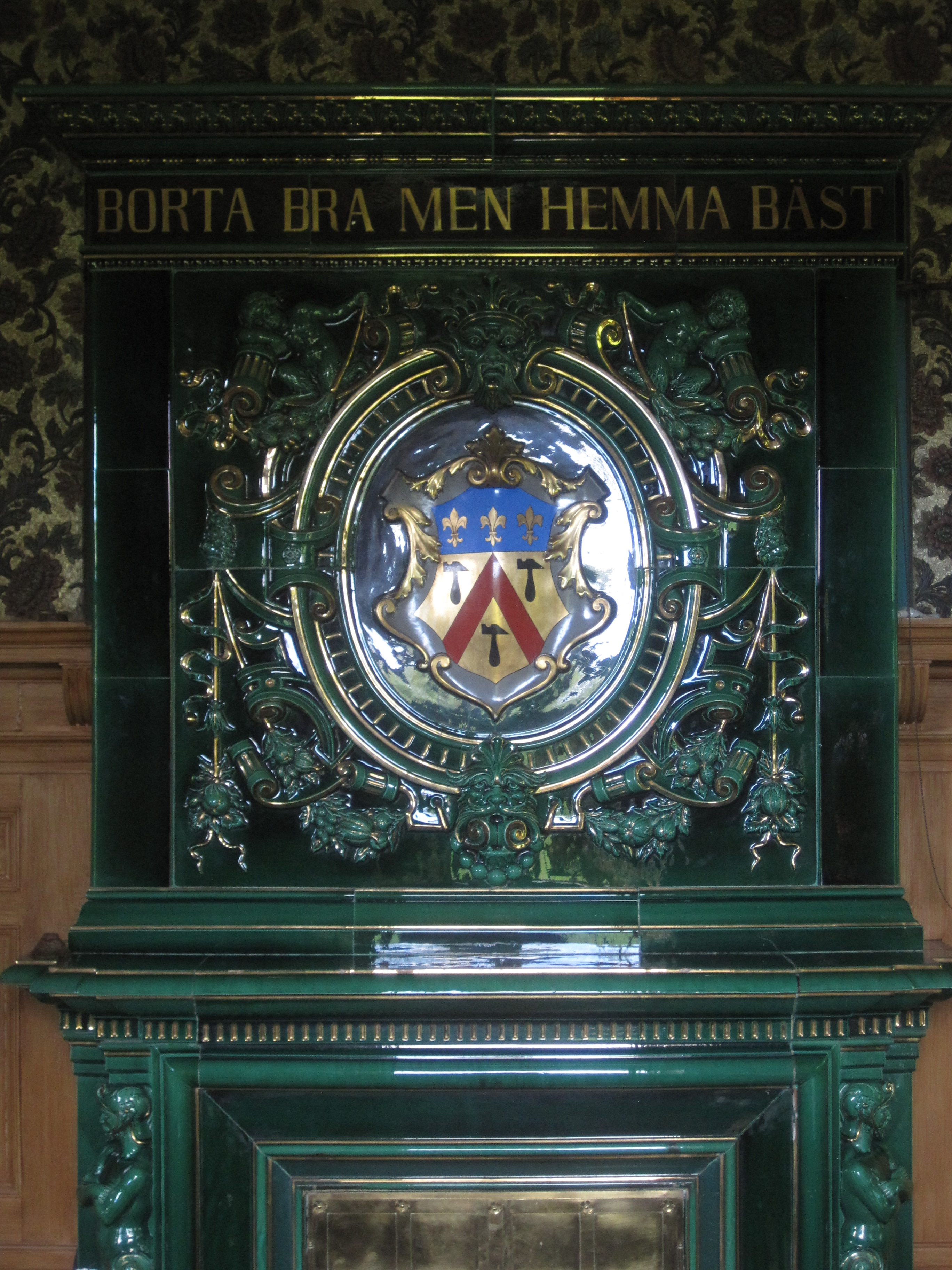 Masonry heater with the coat of arms of the Swedish noble family Tersmeden at the Tersmeden manor in Ramnäs, Sweden.